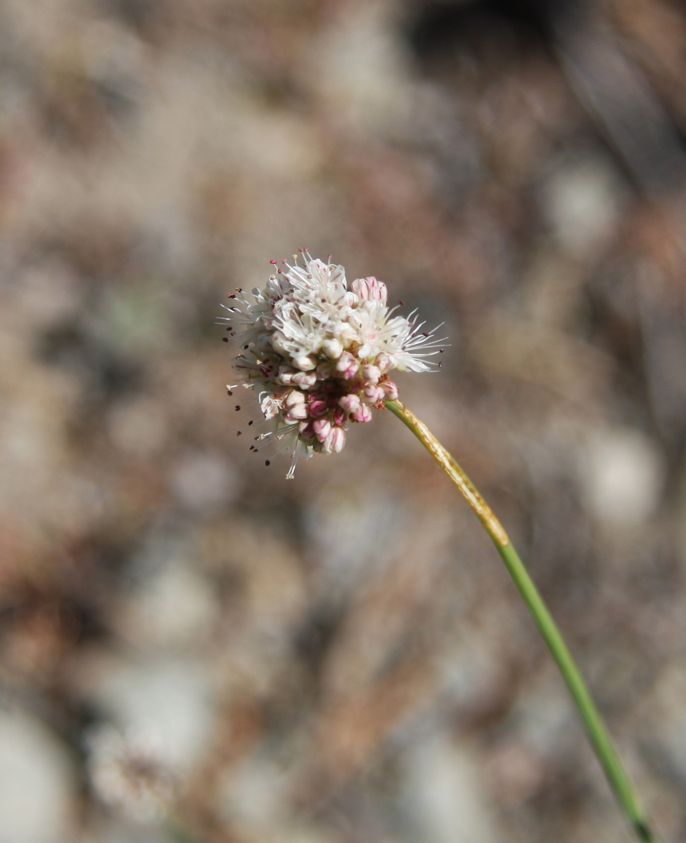 Nude buckwheat (Eriogonum nudum), flowerhead closeup. At 8800ft along River Trail up the San Joaquin headwaters, in Devil's Postpile National Monument, California.